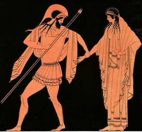 Menelaus, Helene